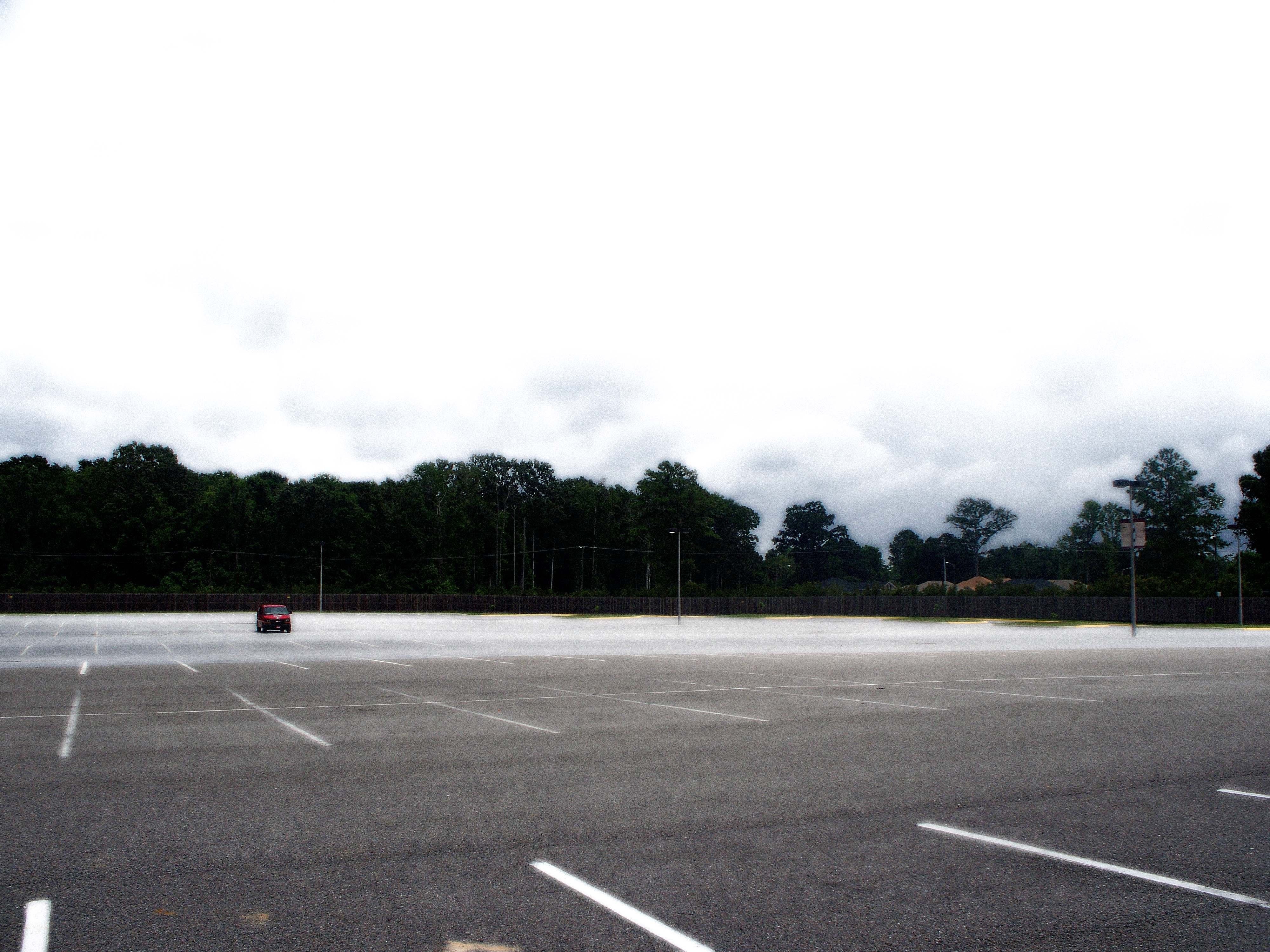 A lone van sits uncomfortably in the desolate parking lot.